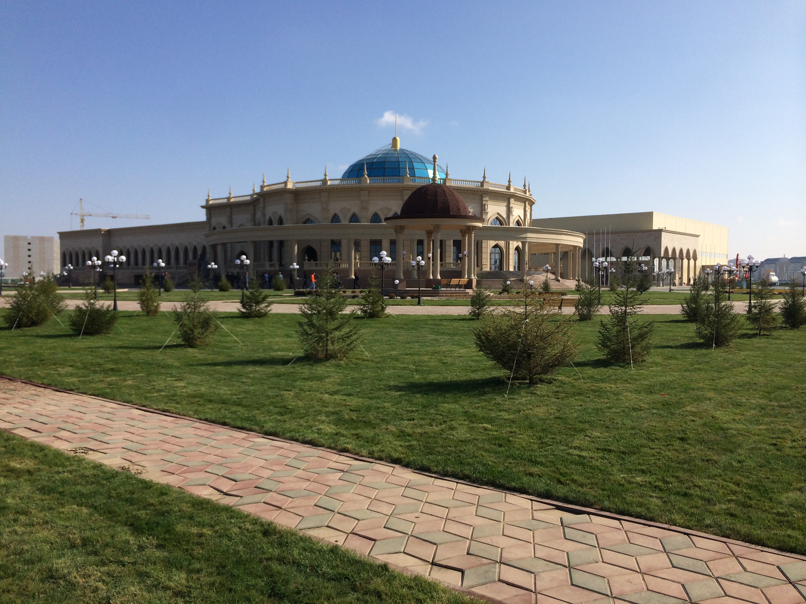 Atyrau new Palace for newlyweds and Exhibition Center. Place for Kazakhstan-Russian economic forum where Nazarbayev and Vladimir Putin will participate.